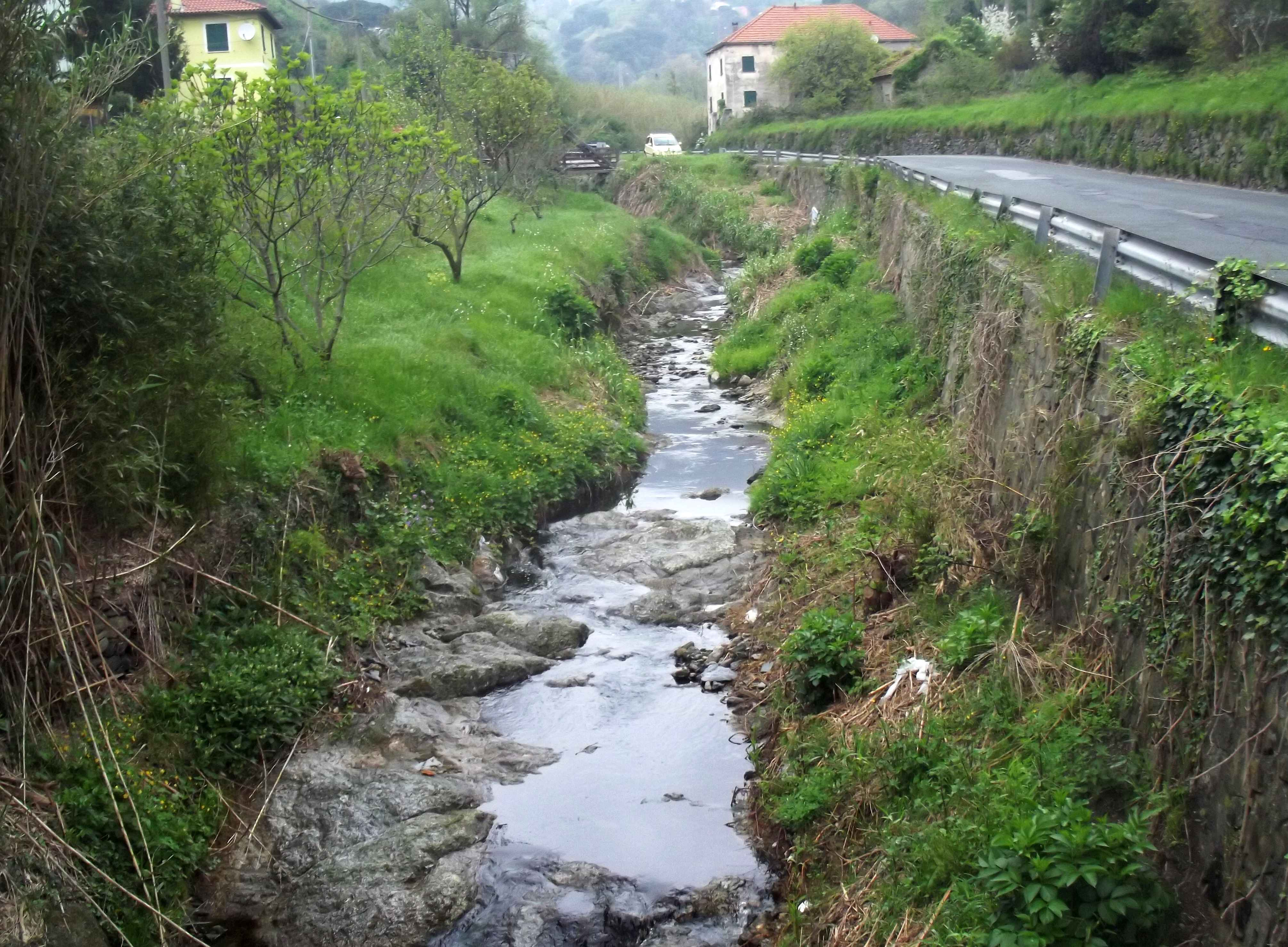 Rio Basco (SV, Italy)